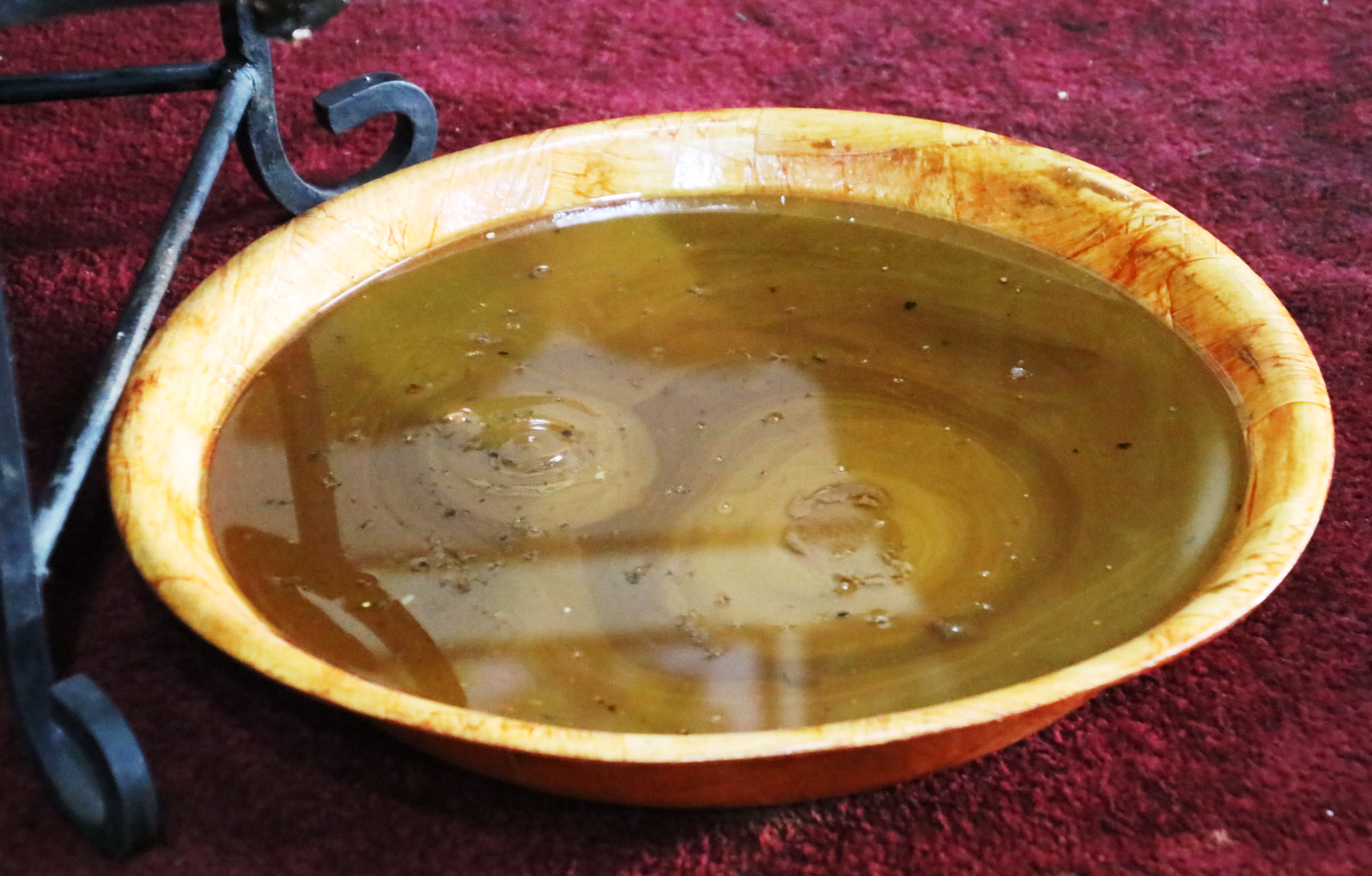 oil of the argan fruit